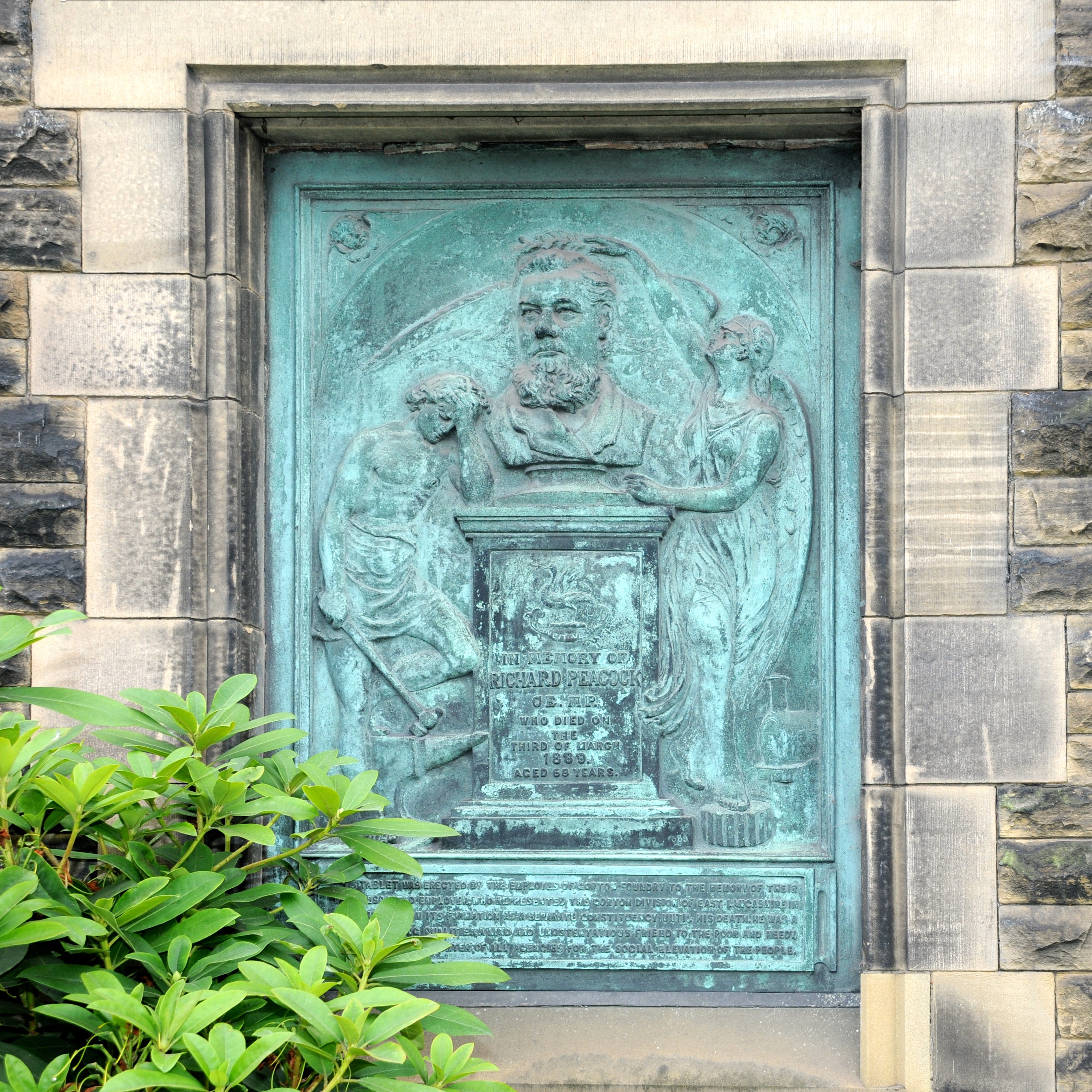 A tablet set in the wall of the Brookfield Unitarian Church, Gorton (716 Hyde Rd, Manchester M18 7EF, United Kingdom) commemorating Richard Peacock, philanthropist, who paid for the church to be erected. The tablet, which was erected by employees of Beyer, Peacock and Company, describes his parliamentary career and testifies to his being "a kind and unostentatious friend to the poor and needy ... a supporter of all agencies for the social elevation of the people."